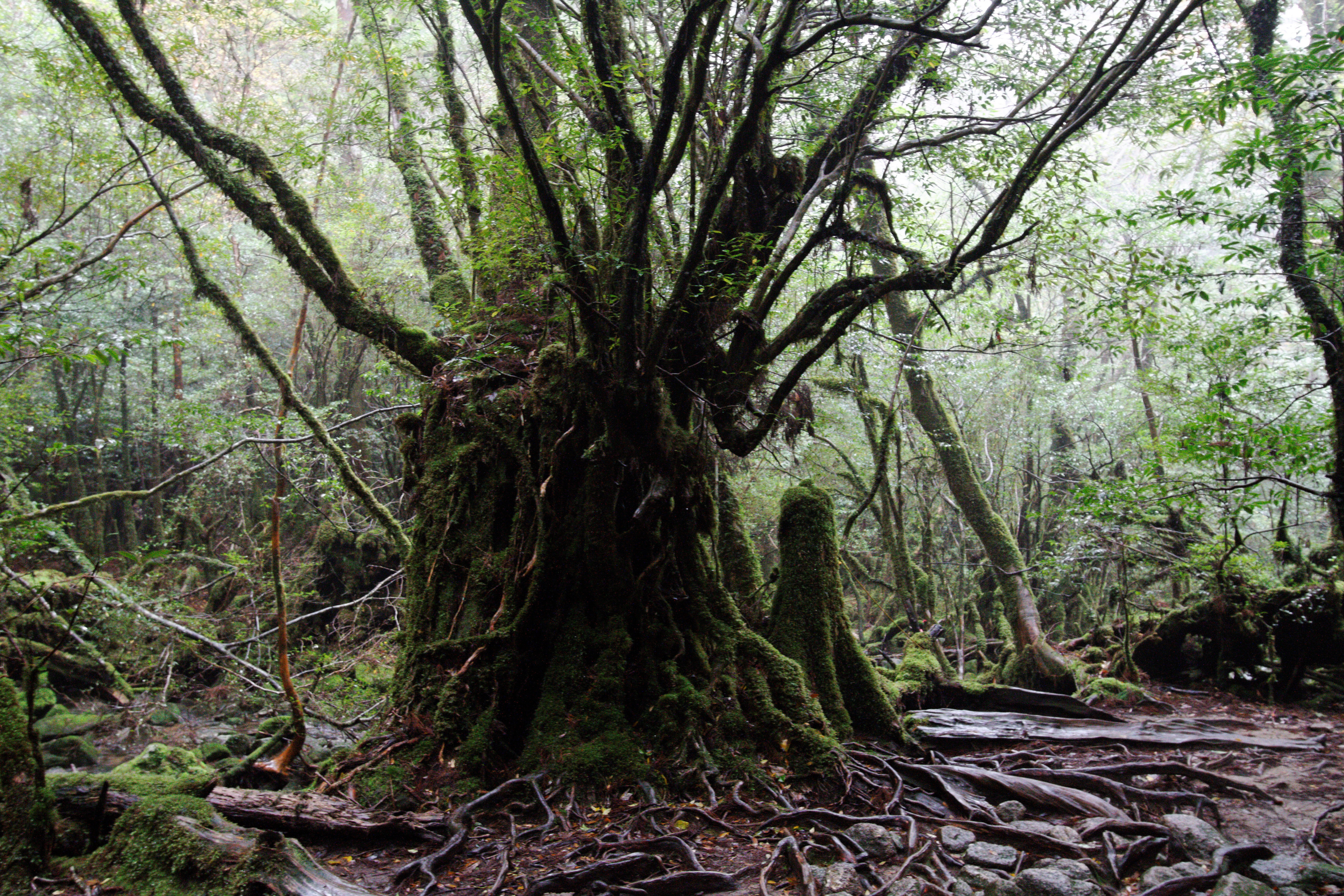 Shiratani Unsuikyo, Yakushima island